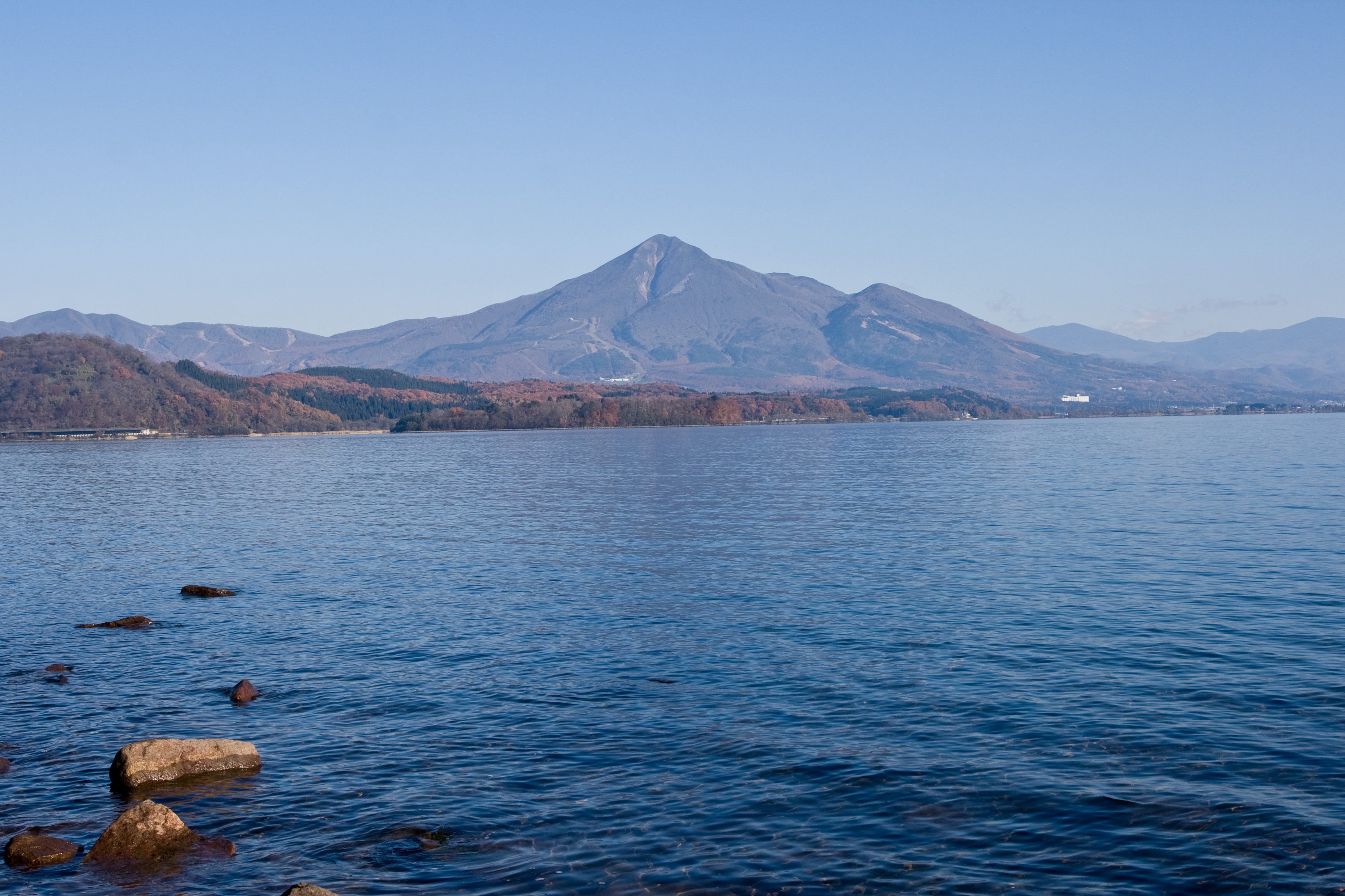 Mount Bandai as seen from Lake Inawashiro, Fukushima Pref., Japan